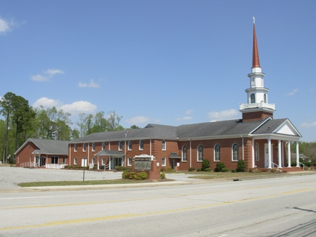 Town Seal